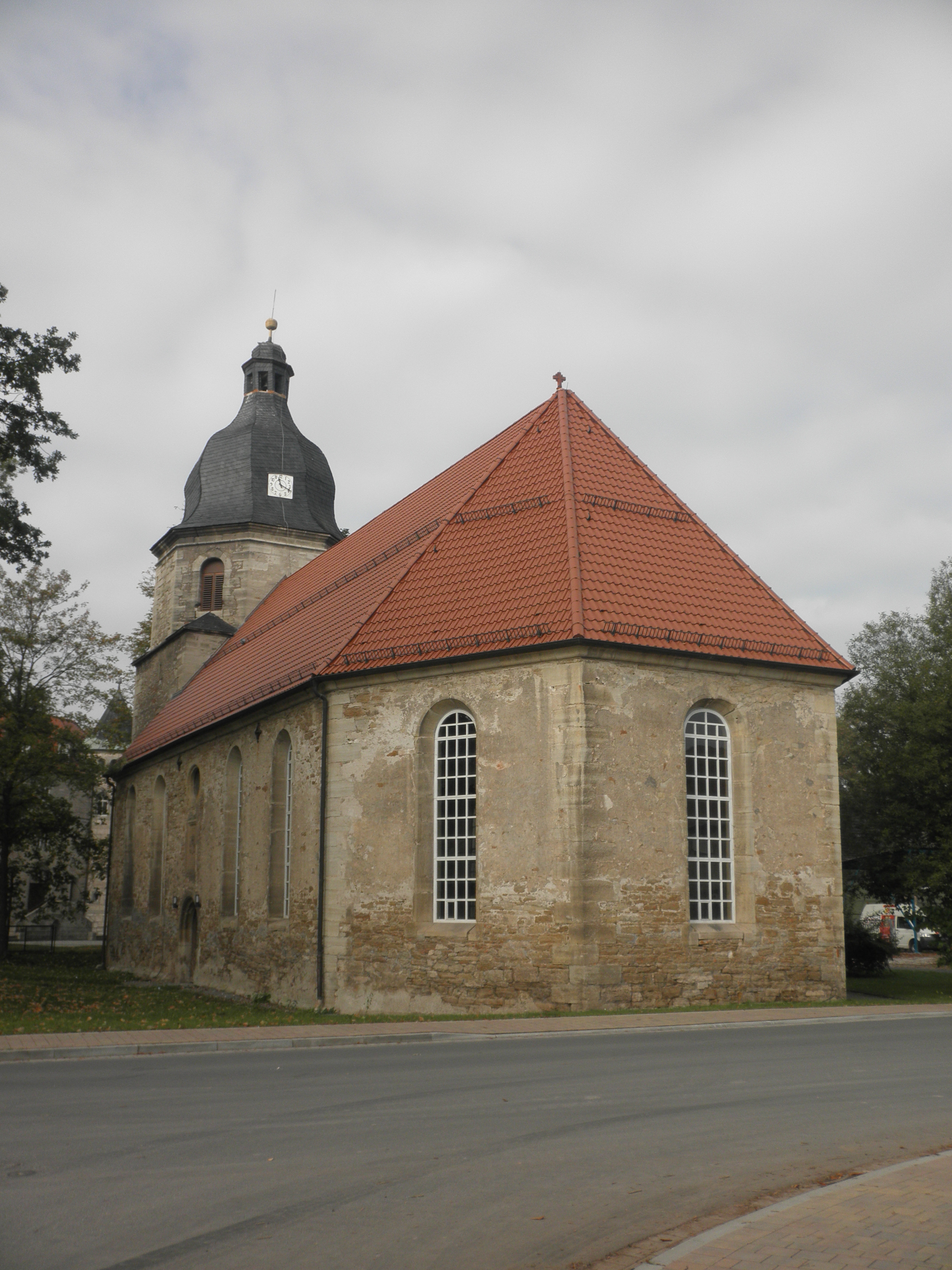 Church Trinitatis in Altengottern in Thuringia